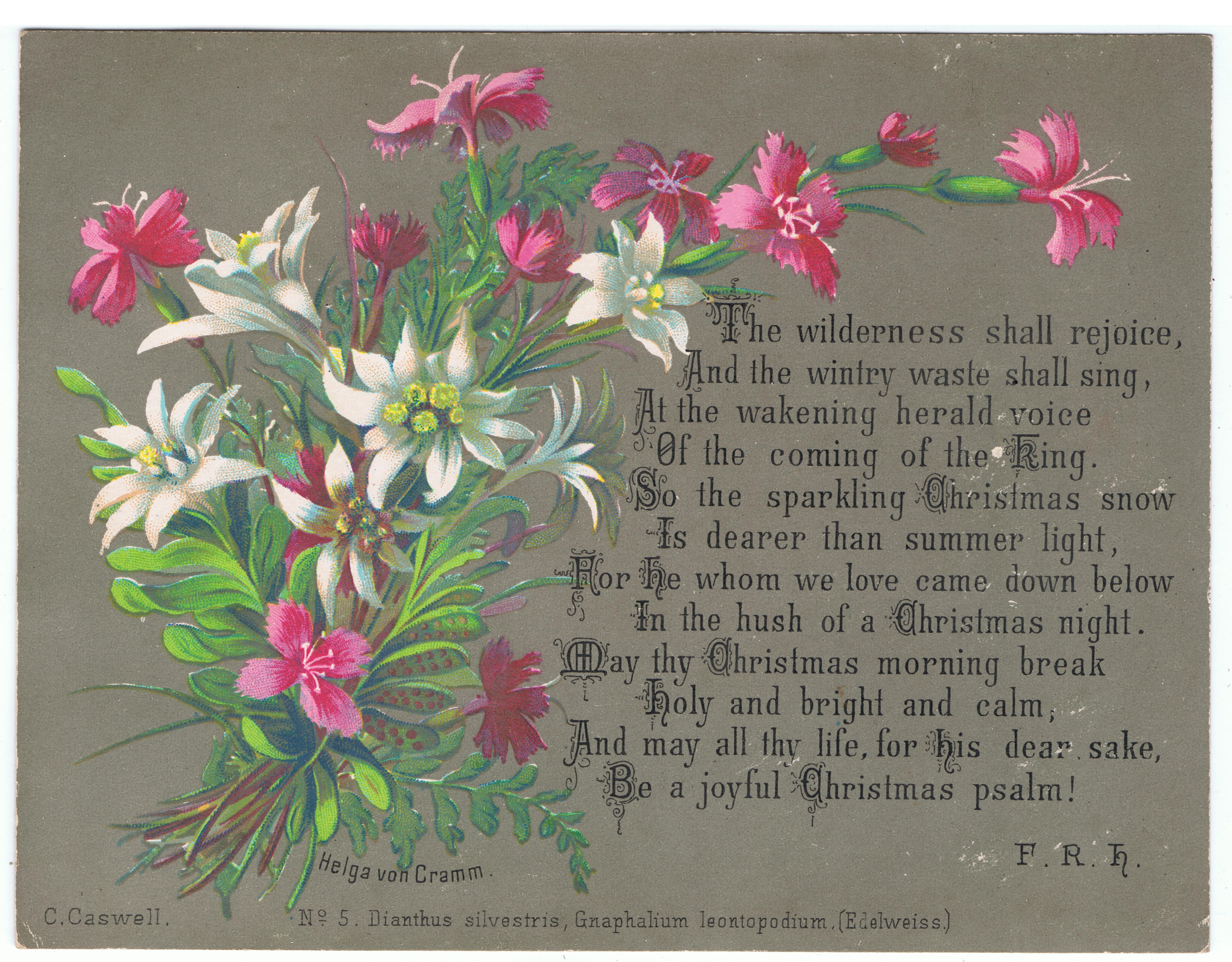 Scan (by me, R. de Salis, Rodolph (talk) 23:58, 16 March 2015 (UTC)), of No.5. Dianthus silvestris, Gnaphalium leontopodium, (Edelweiss), chromolithograph by Helga von Cramm, with hymn by F. R. Havergal, 1877.